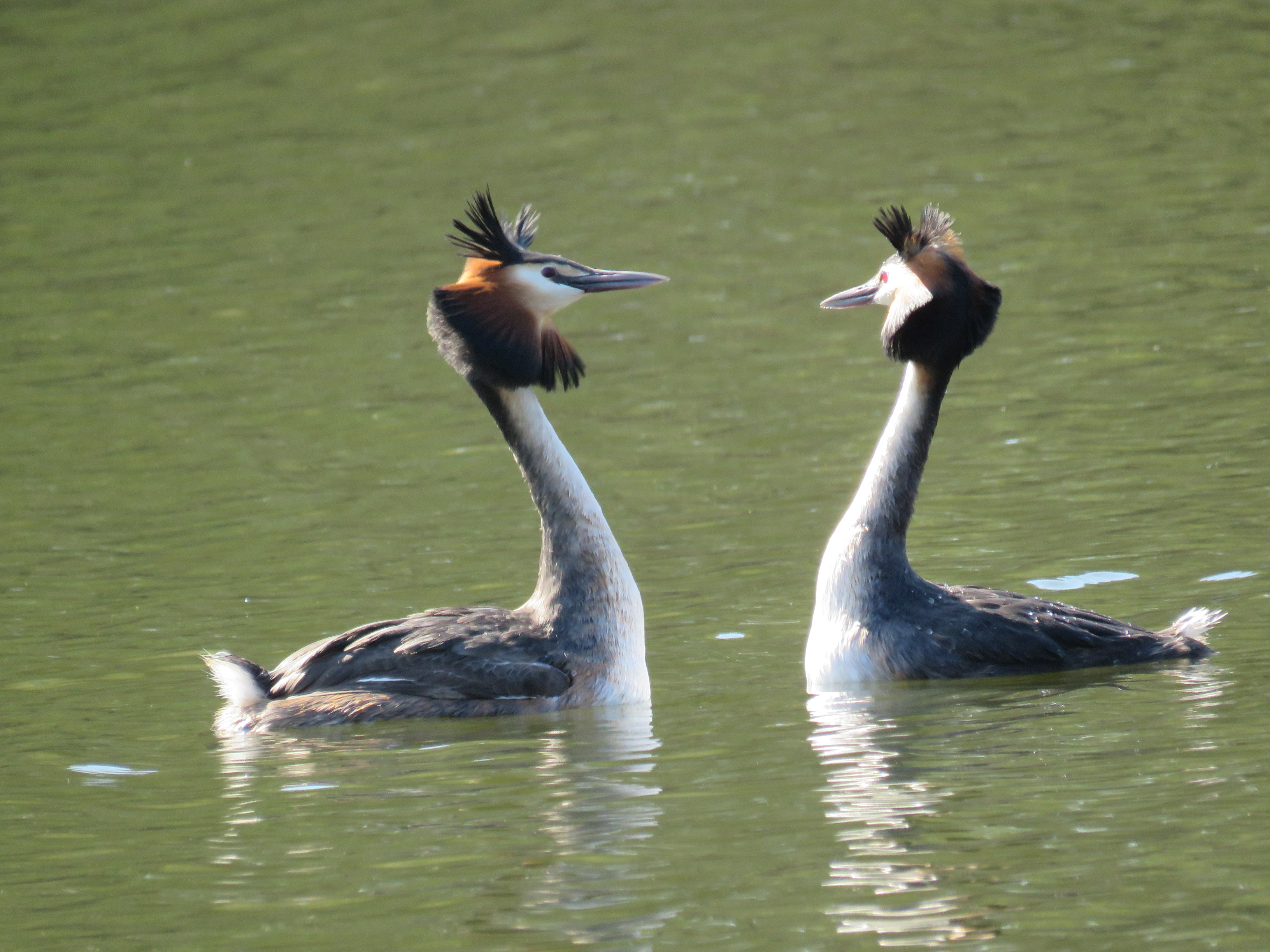 Great crested grebes, Mere Sands Nature Reserve, Lancashire